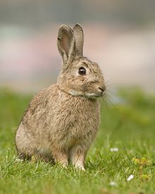 澳洲的入侵性物种——野兔